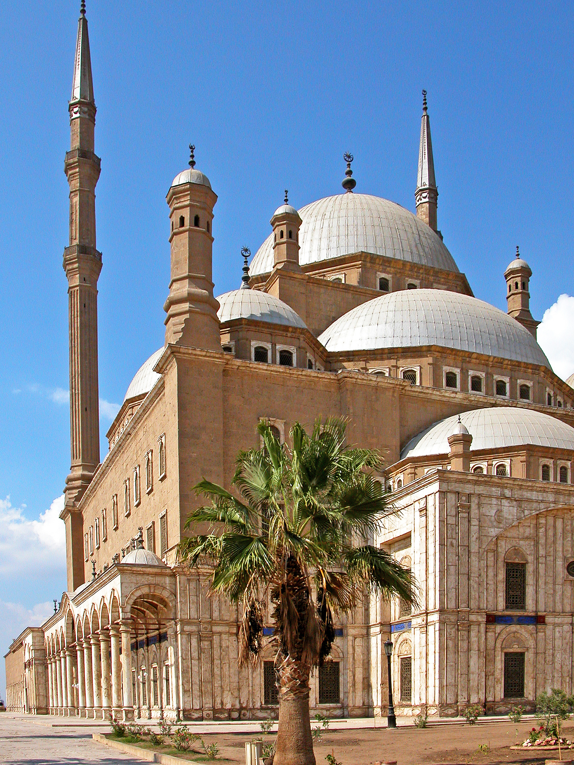 The most famous structure at the Citadel is the Mohammed Ali Mosque. The mosque is also known as the Alabaster Mosque built between 1824 and 1857. Cairo, Egypt